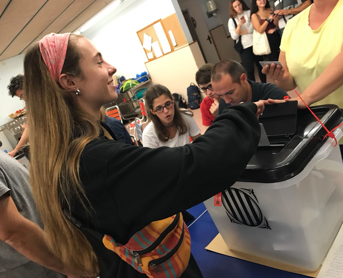 A young girl voting at the Catalan independence referendum